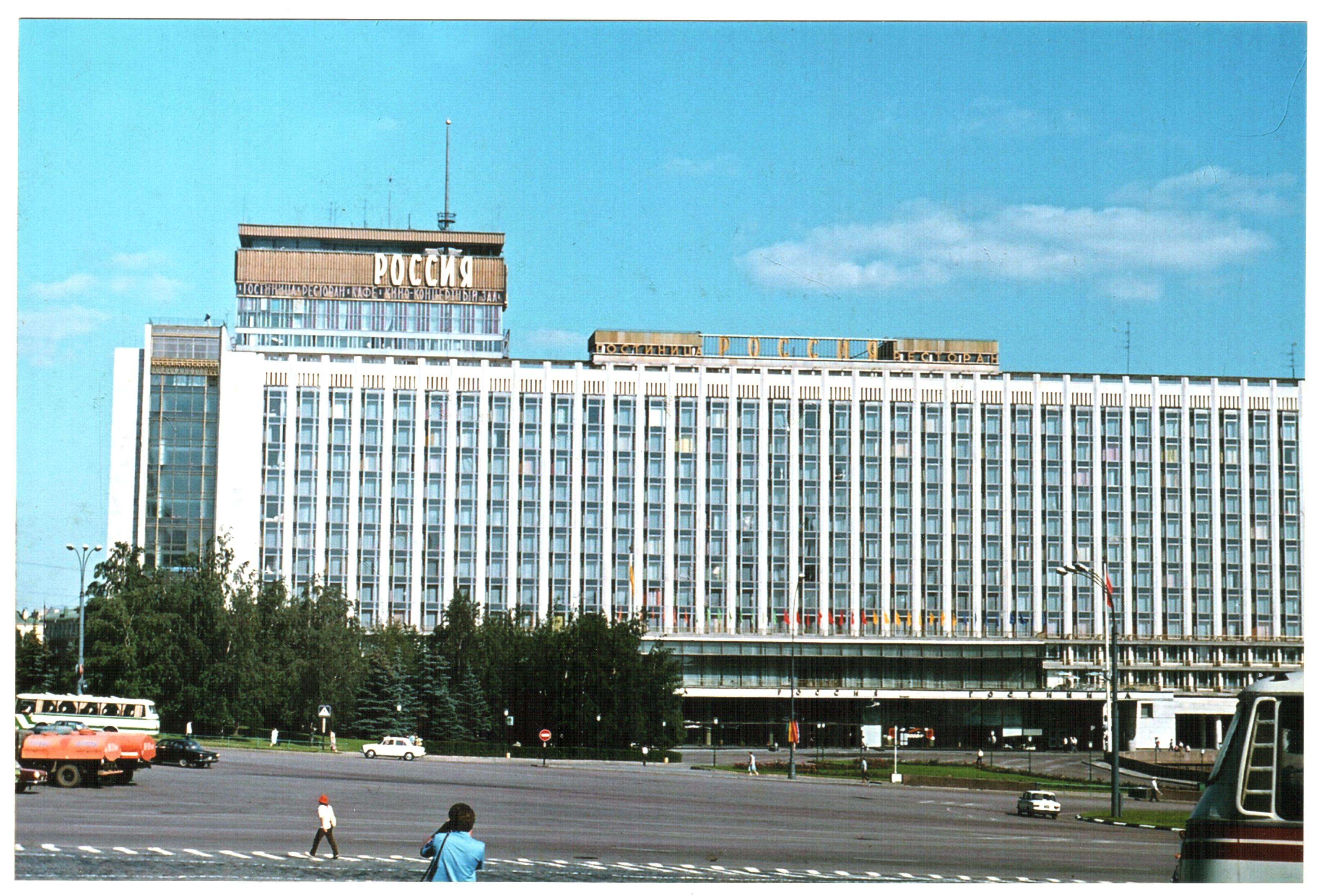 Moscow Olympic Games, 1980. Live in Moscow, in the Summer, 1980. I travelled with a Hungarian group of fans, from Budapest, Hungary. Published under Creative Commons in the Metapolisz DVD line.